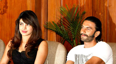 Gunday cast at a promotional event.